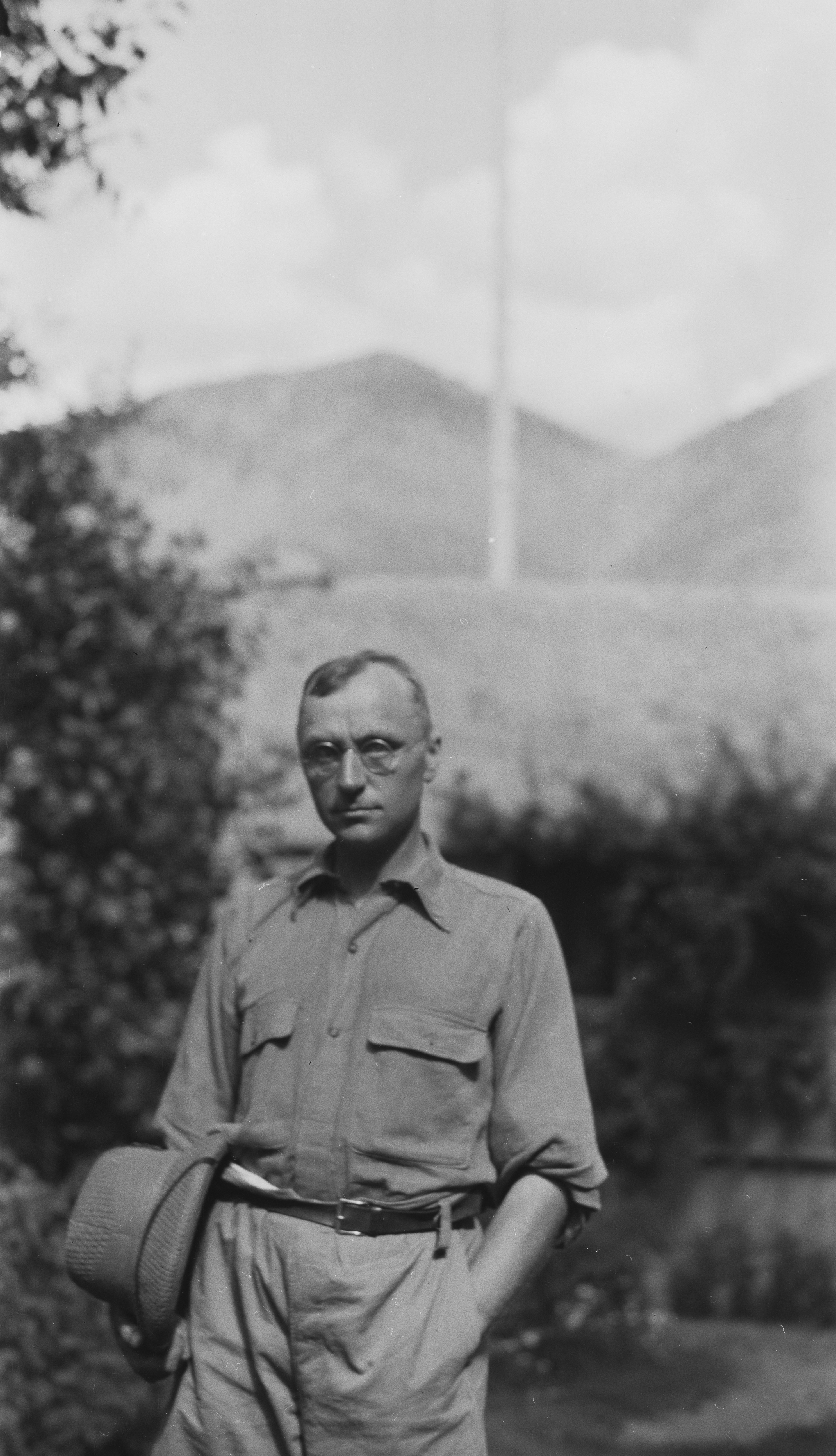 Chitral, NWFP, Pakistan Georg Morgenstierne with a tropical hard hat ( topi) in his hand during linguistic field-work in Chitral 1929. Depicted person: Georg Morgenstierne